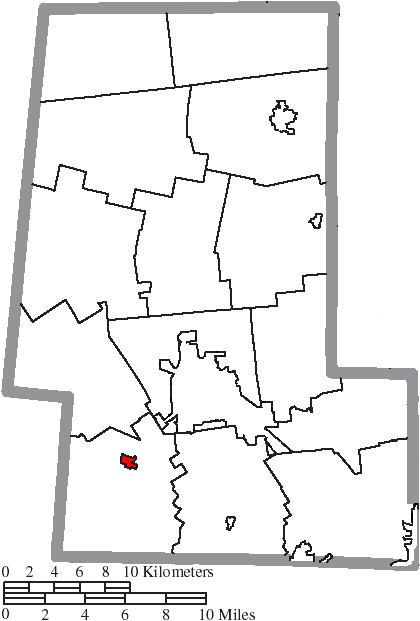 Map of the municipal and township boundaries of Union County, Ohio, United States, as of the 2000 census, with the location of the village of Milford Center highlighted. Township borders are shown only in unincorporated areas in order to differentiate incorporated and unincorporated areas more clearly.